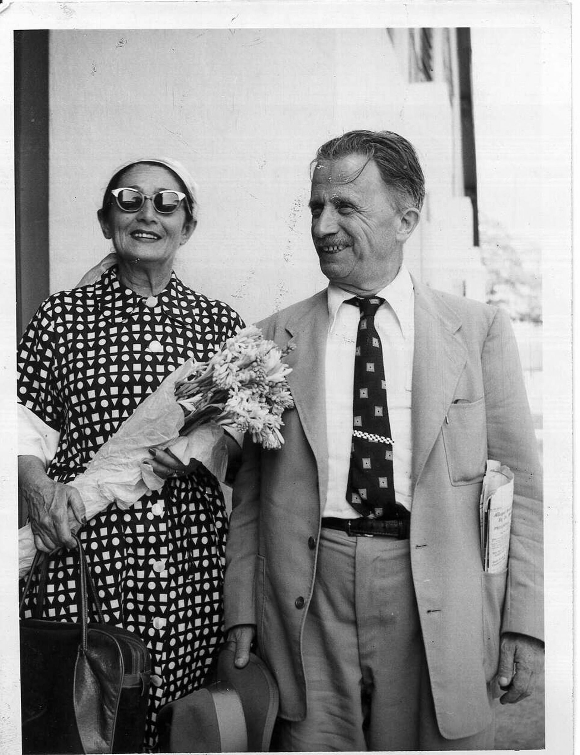 Berl Locker with his wife, Malka Locker.